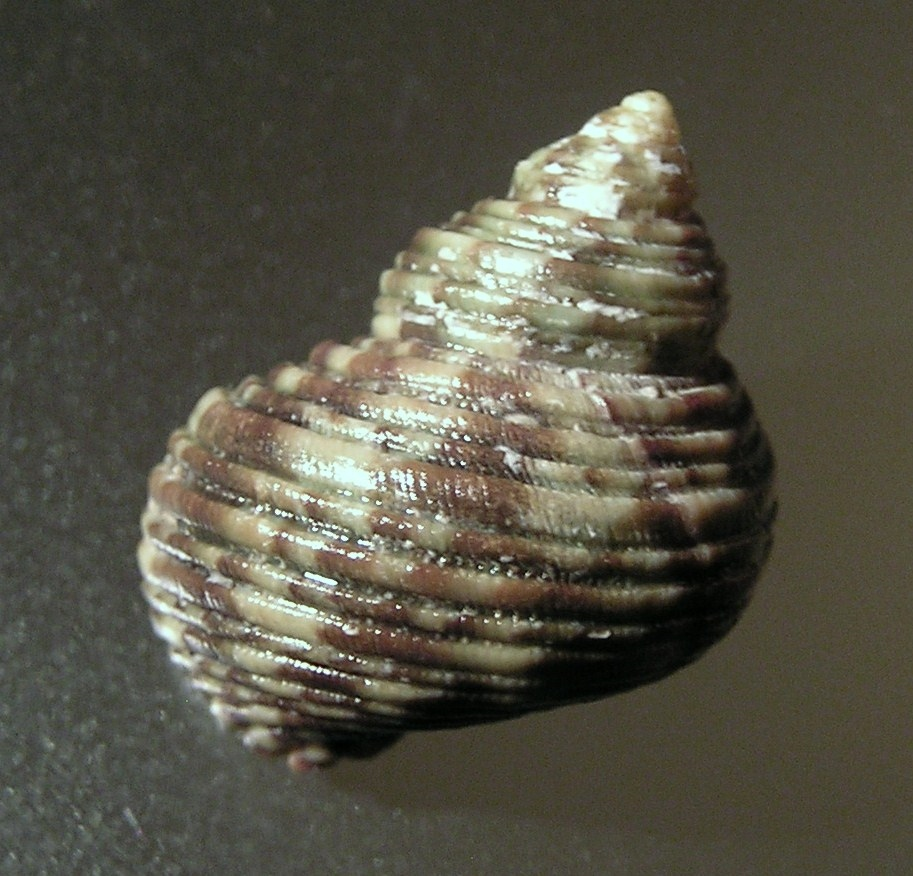 Turbo sandwicensis (Pease, 1861) (synonym:Turbo (Marmarostoma) argyrostomus sandwicensis (Pease, 1861) ), a sea snail from the family Turbinidae; Hawaii